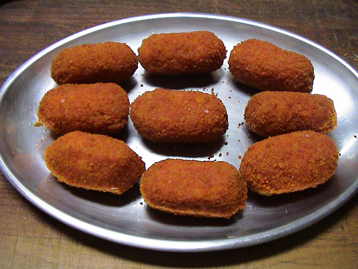 Advice for presentation of Supplì